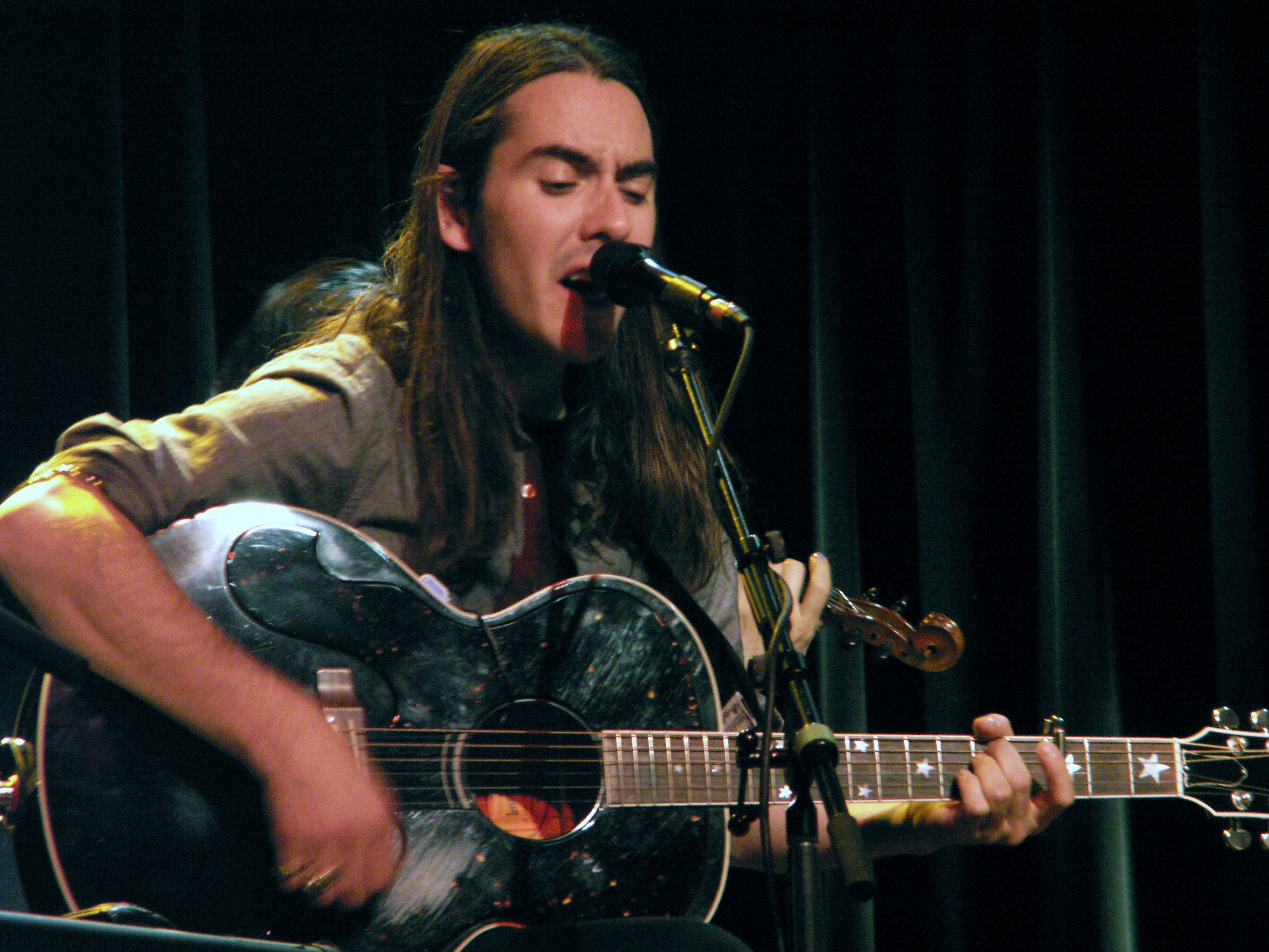 Dhani Harrison performing in Seattle, Washington on 9 November, 2010